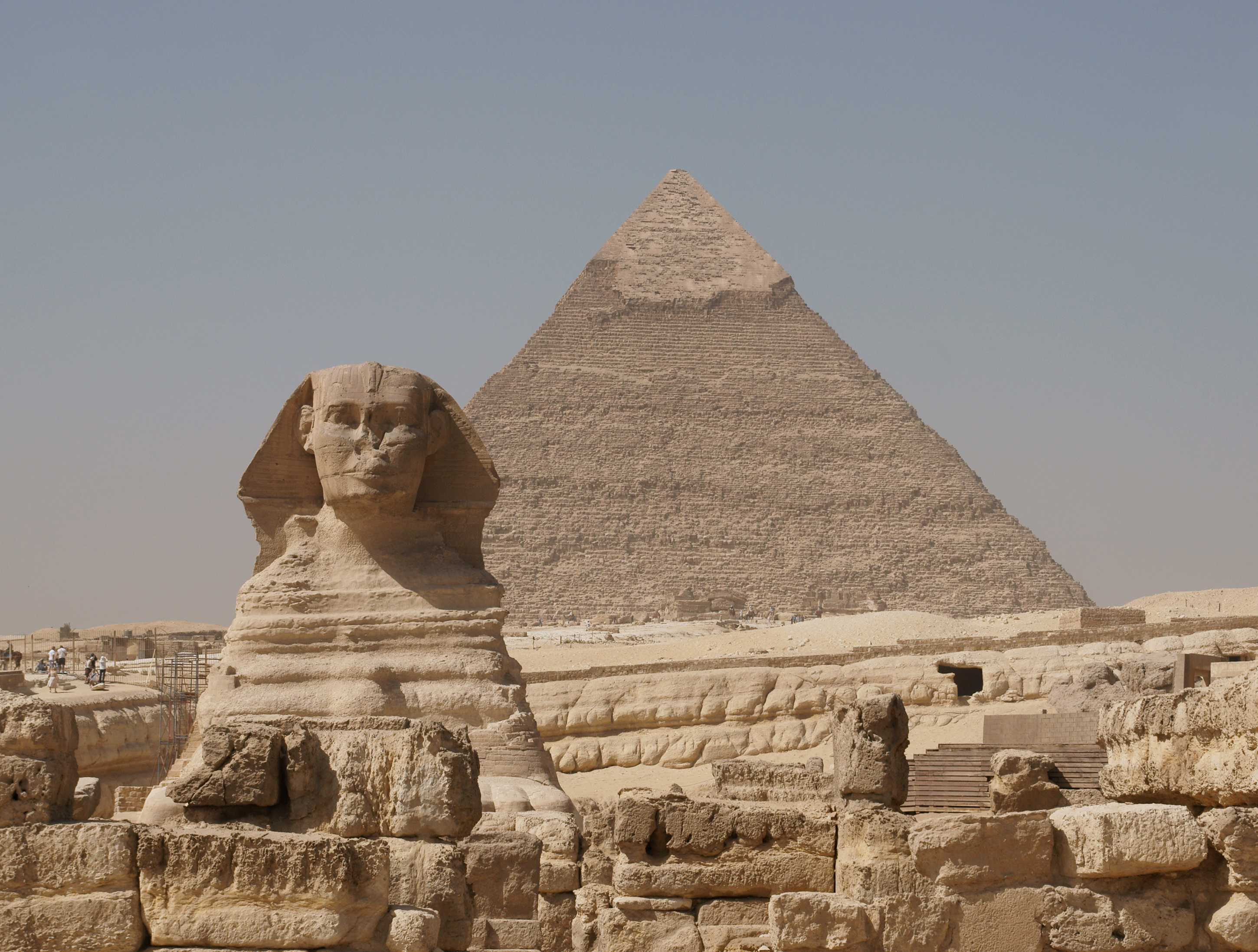 The Sphinx against Khafra's pyramid.